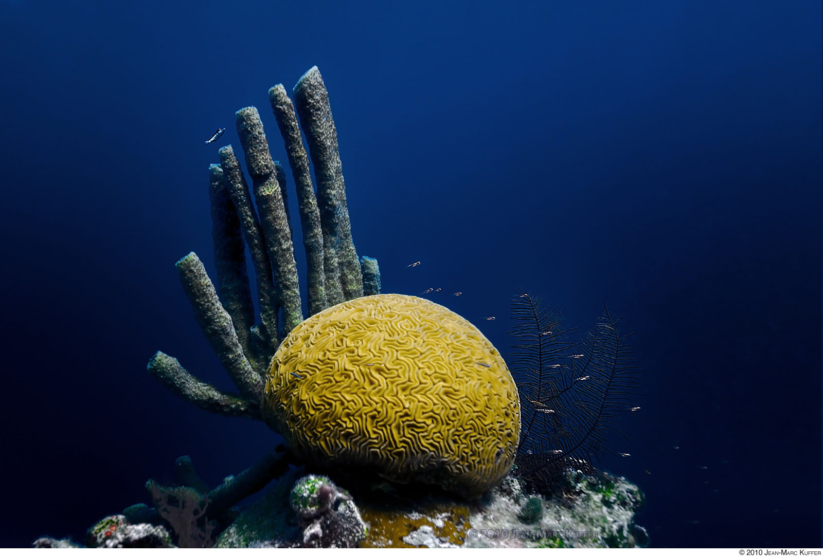 Brain and tube corals of the Great Blue Hole in Belize, with trunkfish. Get a better view with Blackmagic or Fluidr. Licensing